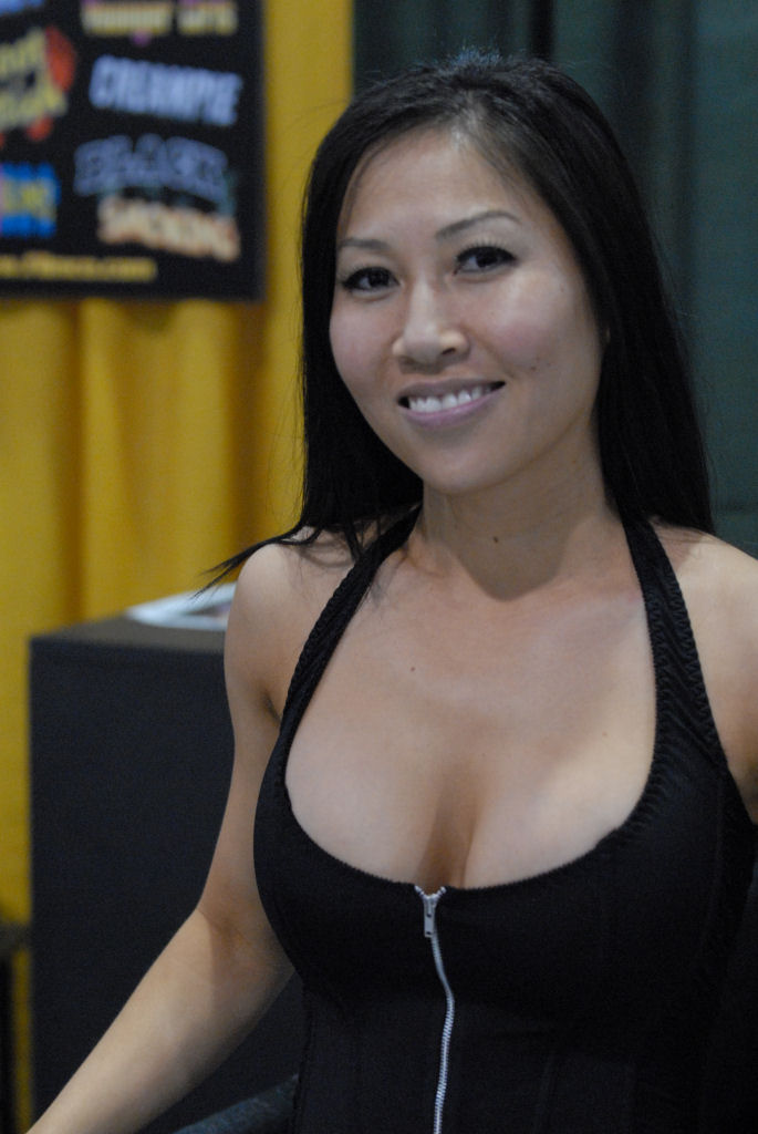 Tia Ling, in 2008.